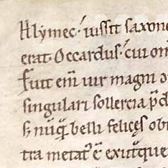 Excerpt of page 35r of Budyšín manuscript of Chronica Bohemorum.